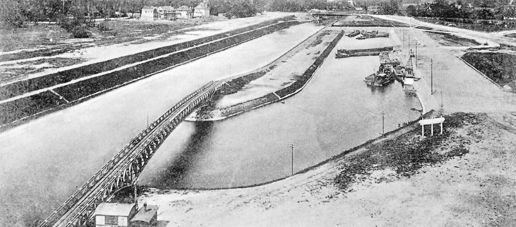 Inland port Berlin-Lichterfelde at the Teltwokanal with the former tow-bridge over the harbour entrance around 1906.